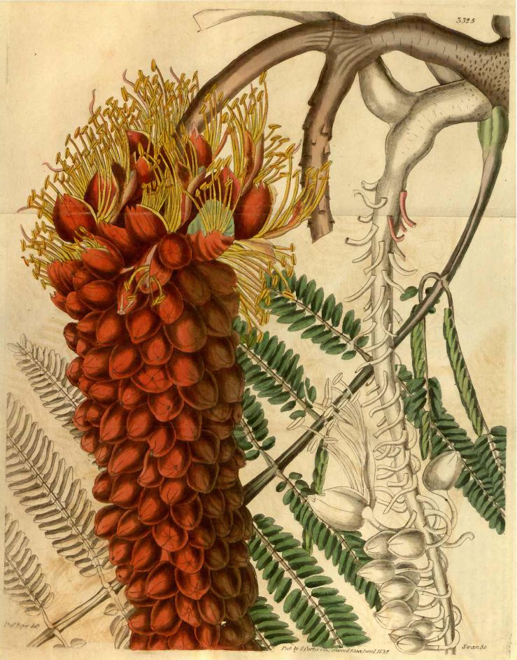 Plate 3325 depicting Colvillea racemosa Bojer